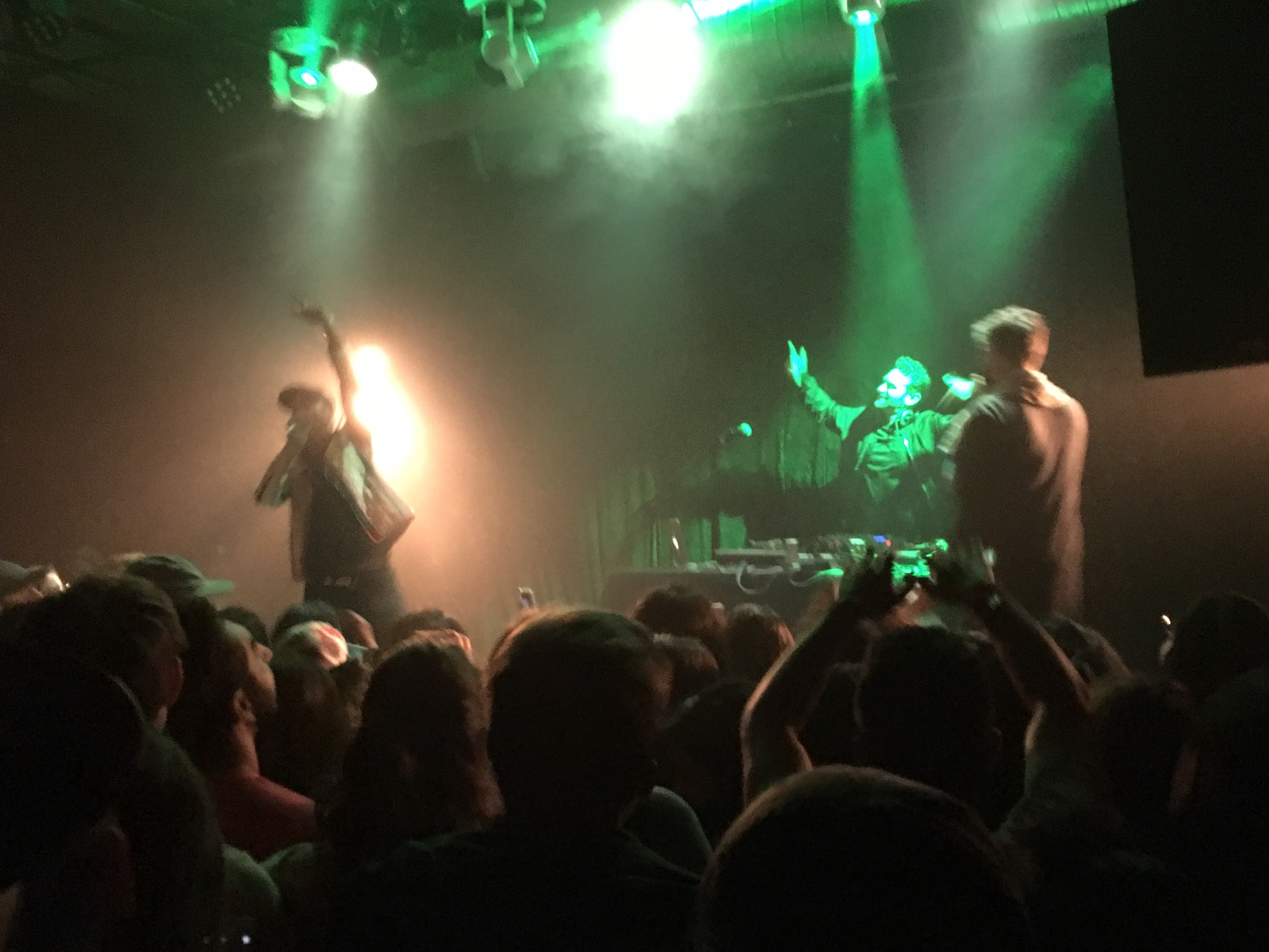 The Swet Shop Boys perform live at the Rickshaw Stop in San Francisco, California